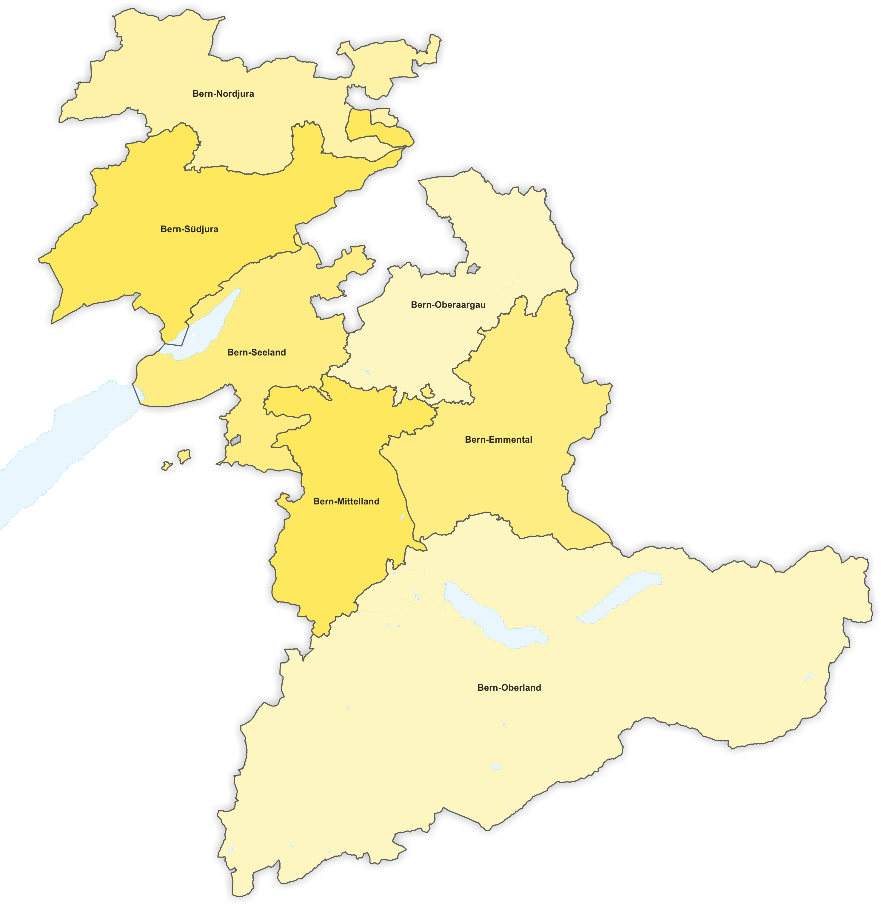 National council constituencies in the canton of Bern from 1890 to 1908